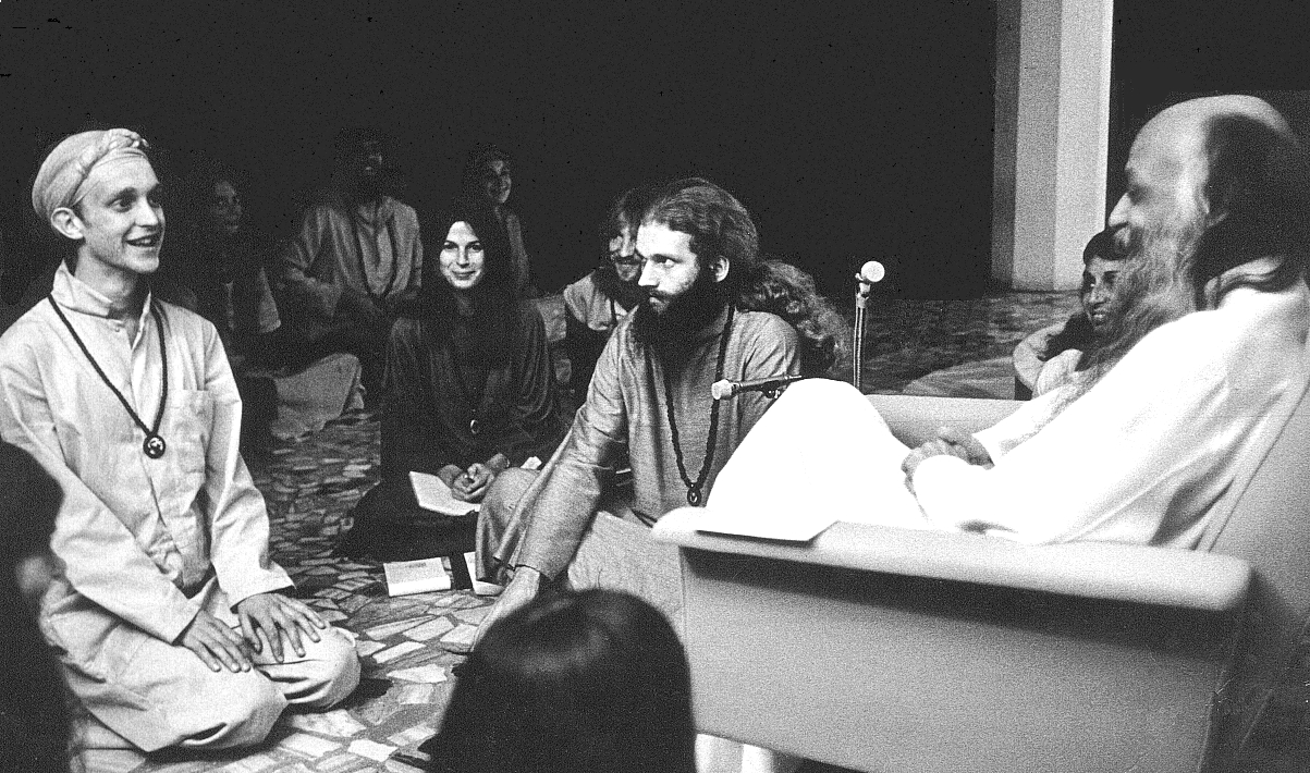 Bhagwan Shree Rajneesh and disciples in darshan at Poona in 1977